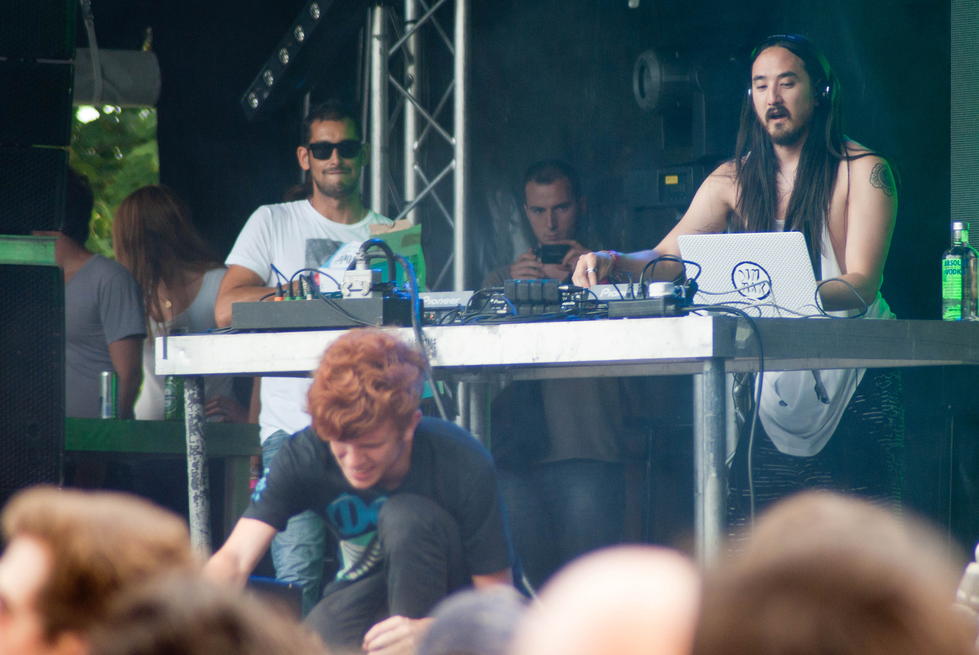 Steve Aoki @ Inox Park Paris Chatou 2011